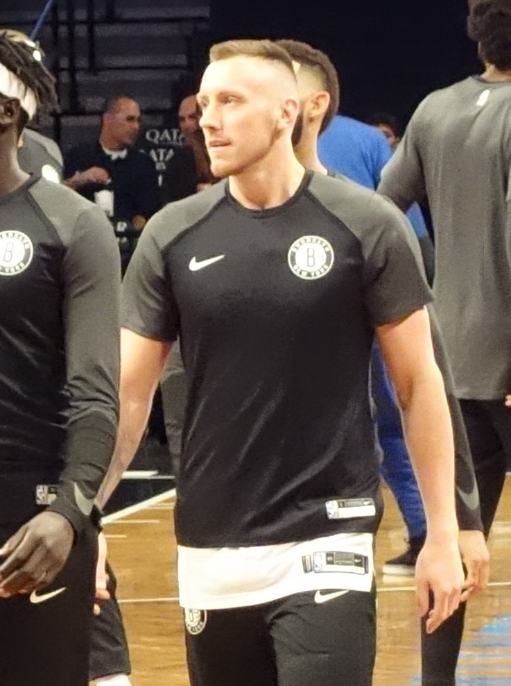 Brooklyn Nets player Mitch Creek warming up prior to the NBA Preseason game between the Brooklyn Nets and the New York Knicks at the Barclays Center on October 3, 2018. Creek, born in Australia, is one of several players trying to "walk on" to the Nets squad.